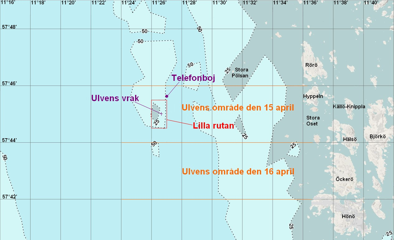 Map over the searcharea in Göteborg northern archipelago, Sweden, where the submarine Ulven submerged struck a German mine in april 1943.